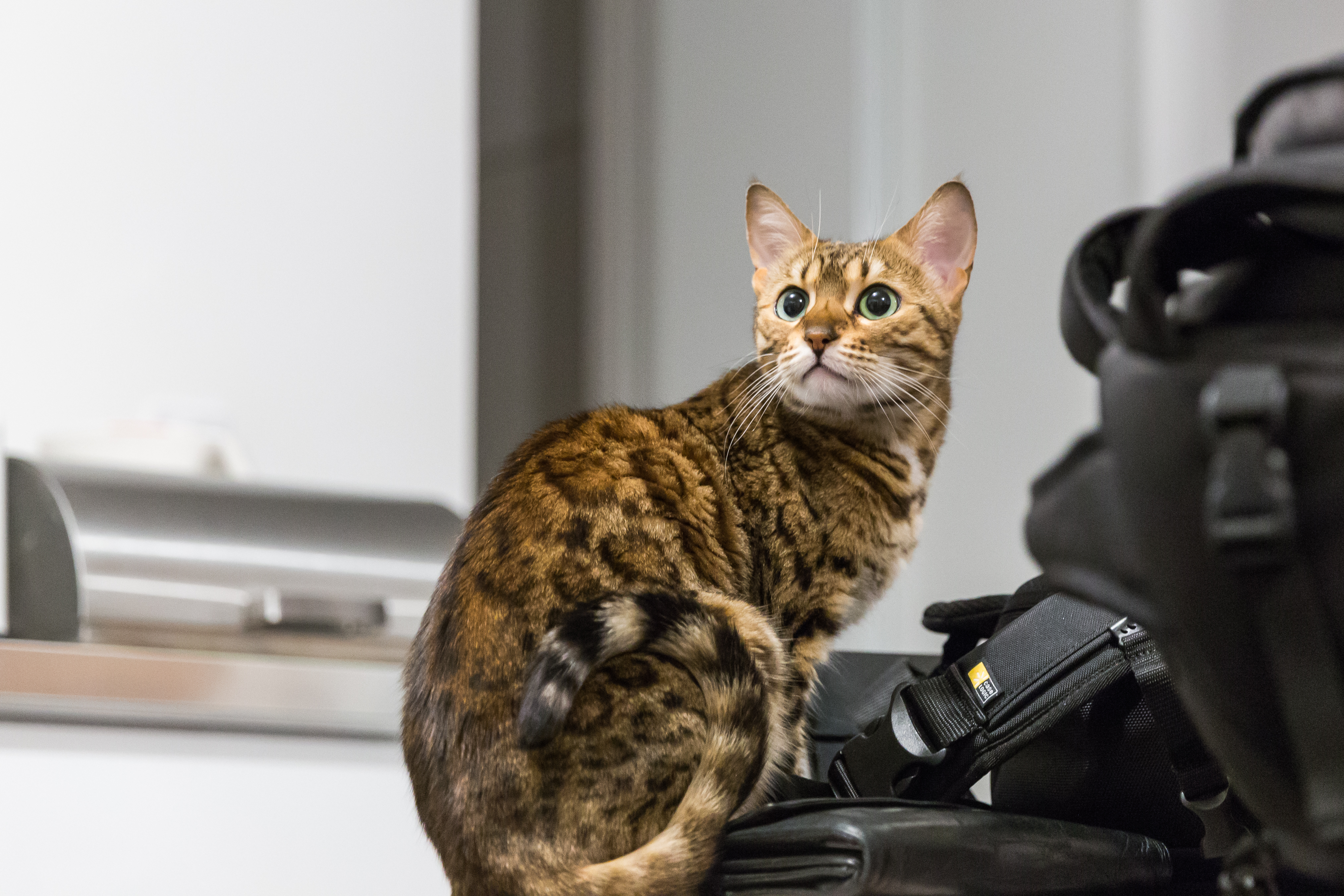 Bengal cat female, three years old.